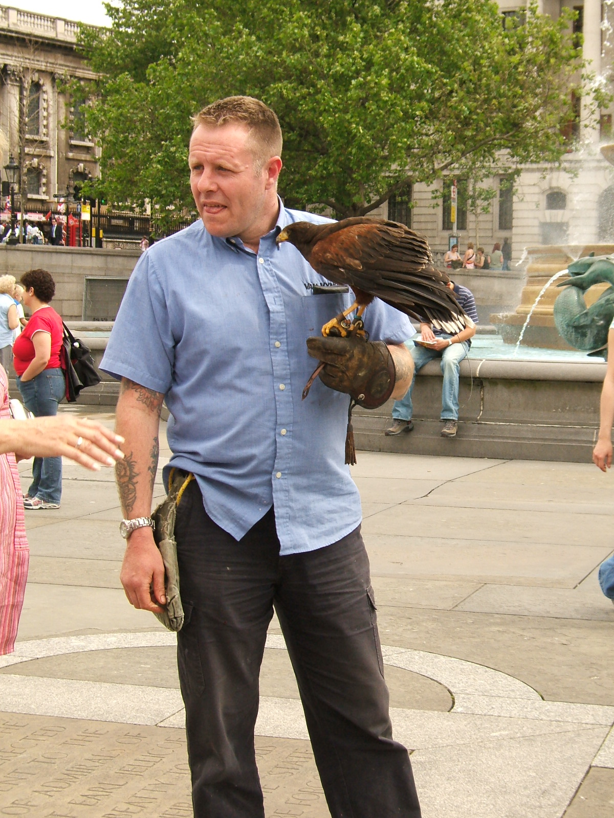 A falconer and his bird (Harris's Hawk Parabuteo unicinctus)